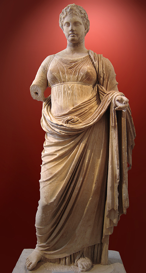 Chairestratos: Themis. Marble, c. 300 BC. Found in Rhamnonte, at the temple of Nemesis. Dedicated to Themis by Megacles. National Archaeological Museum of Athens.